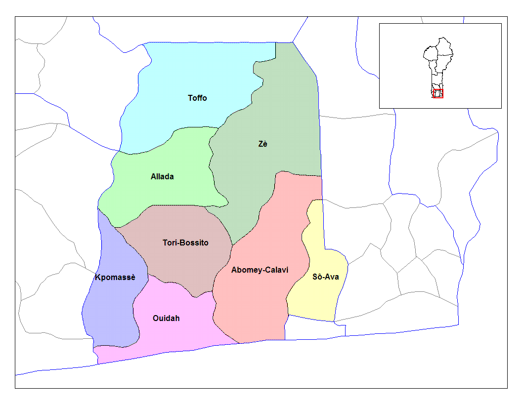 Map of the communes of the department of Atlantique, Benin. Created by Rarelibra for public domain use. Created using MapInfo Professional v7.5 and various mapping resources.